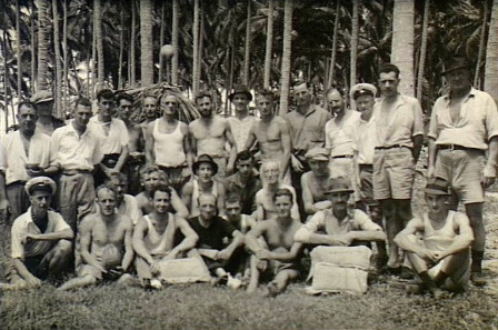 Portrait of some of the passengers and crew who had been cast away of Emirau island (bismarck archipelago, Papua) after their merchant ships were sunk by german raiders